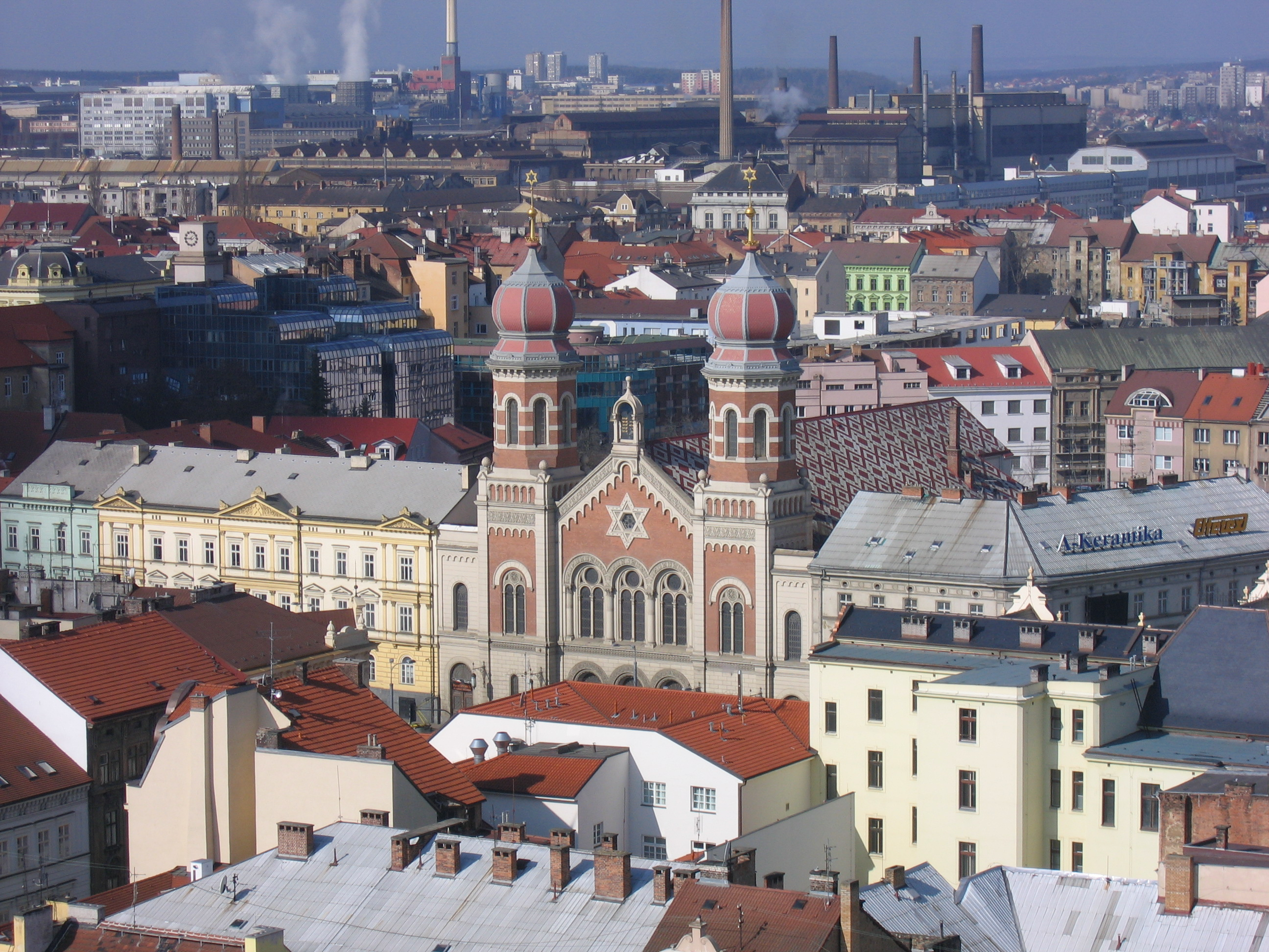 City of Plzeň, Czech Republic. Pilsen, Tschechien. View from the tower of the St. Bartholomew Church at the main square "Namesti Republiky".